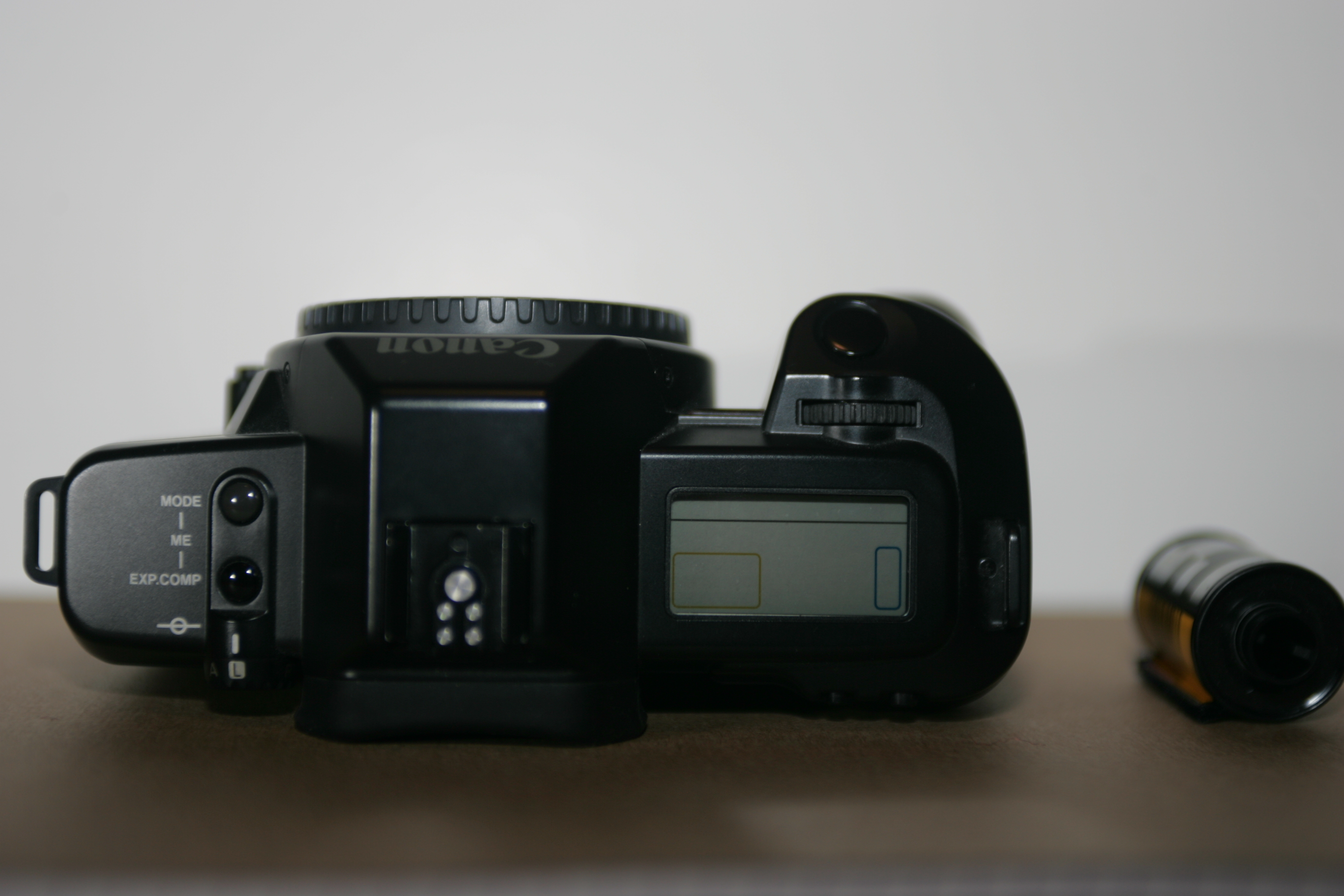 photo by Canonperson, 2005